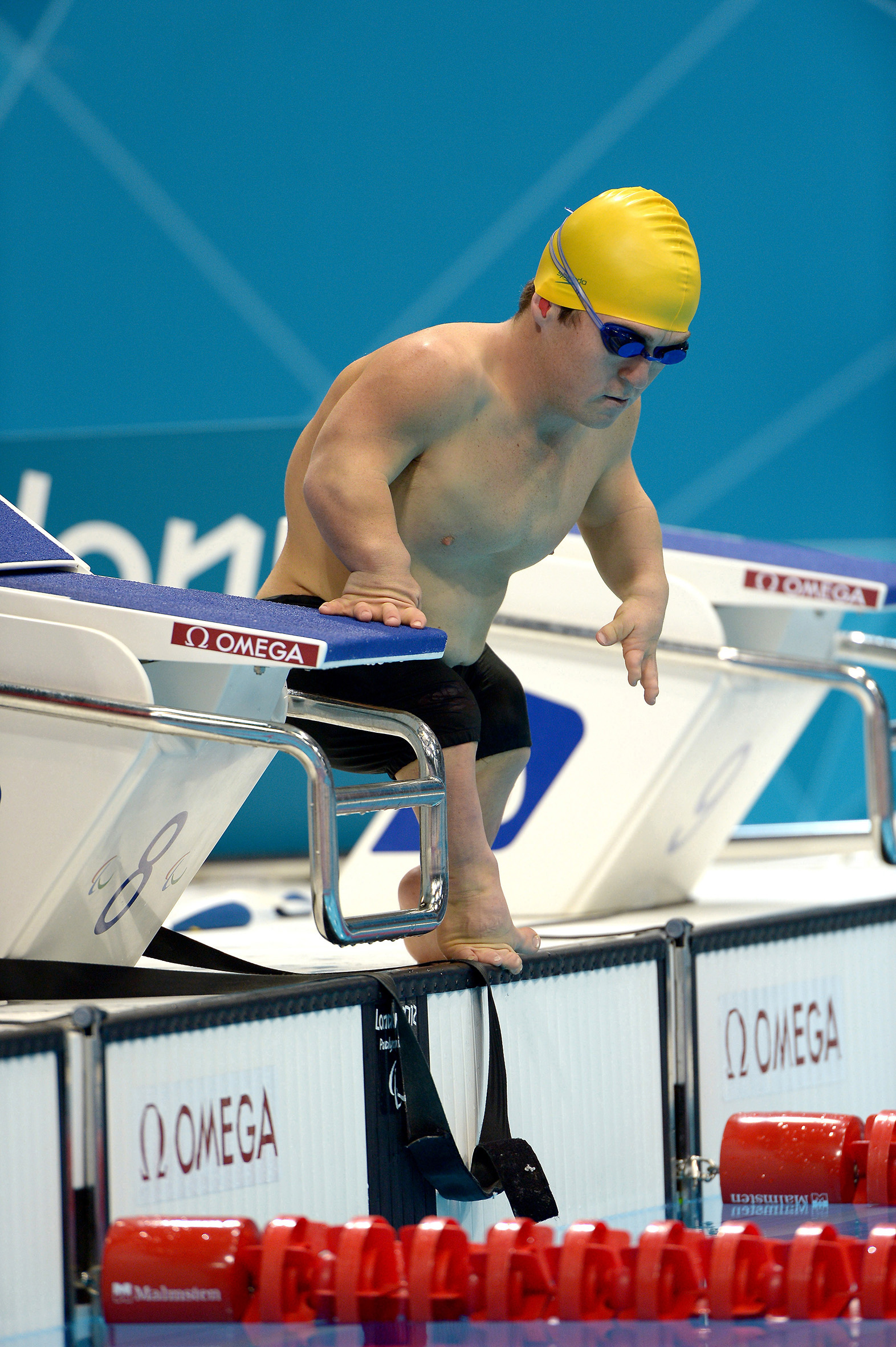 Photograph of Australian Paralympic team member Grant Patterson at the 2012 Summer Paralympics in London